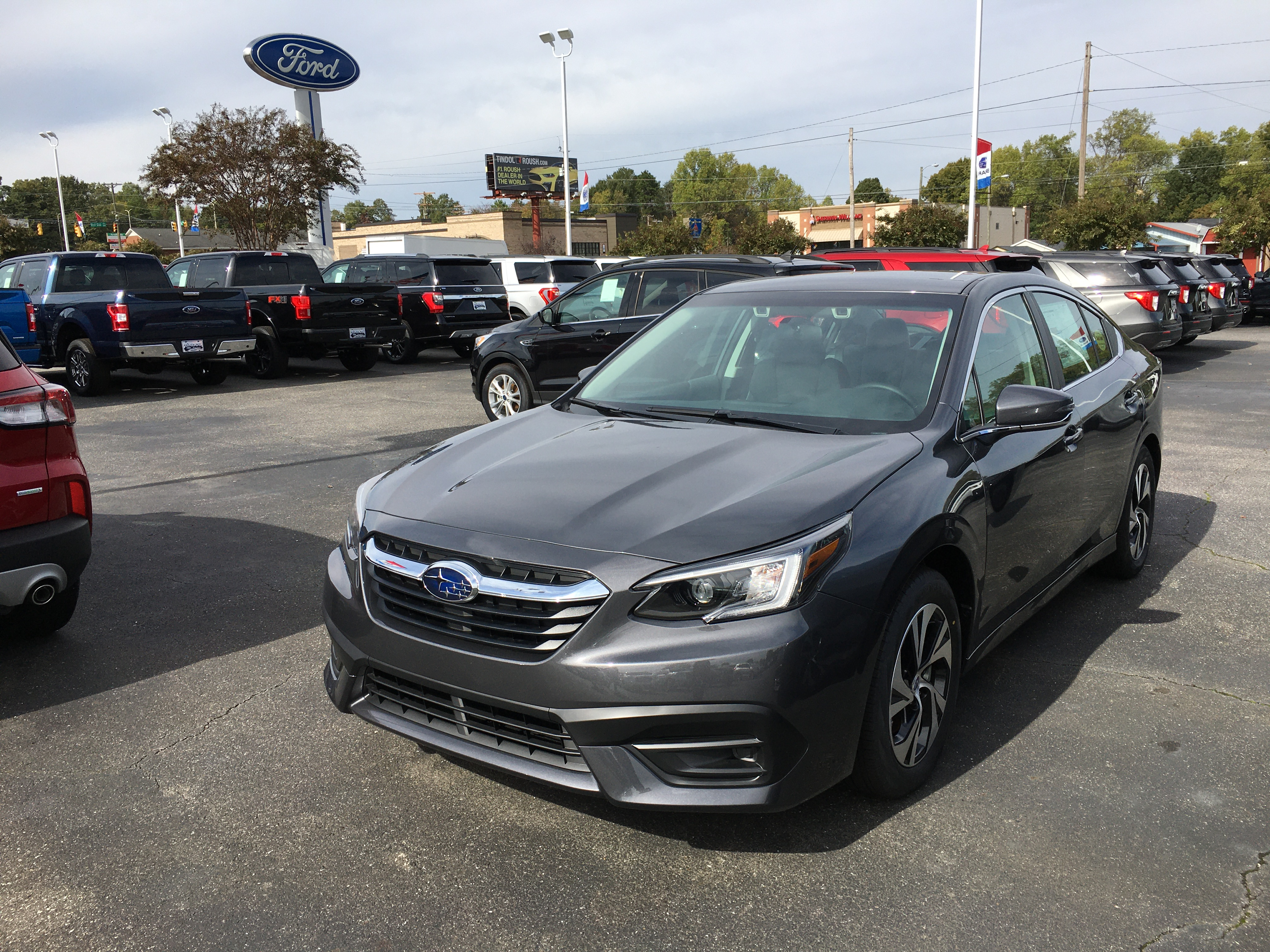 the front view of a 2020 Subaru Legacy